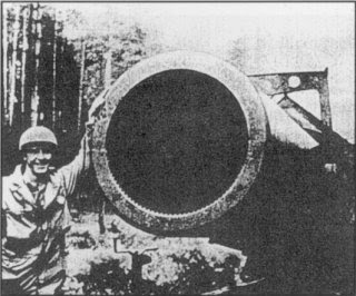 Railway gun